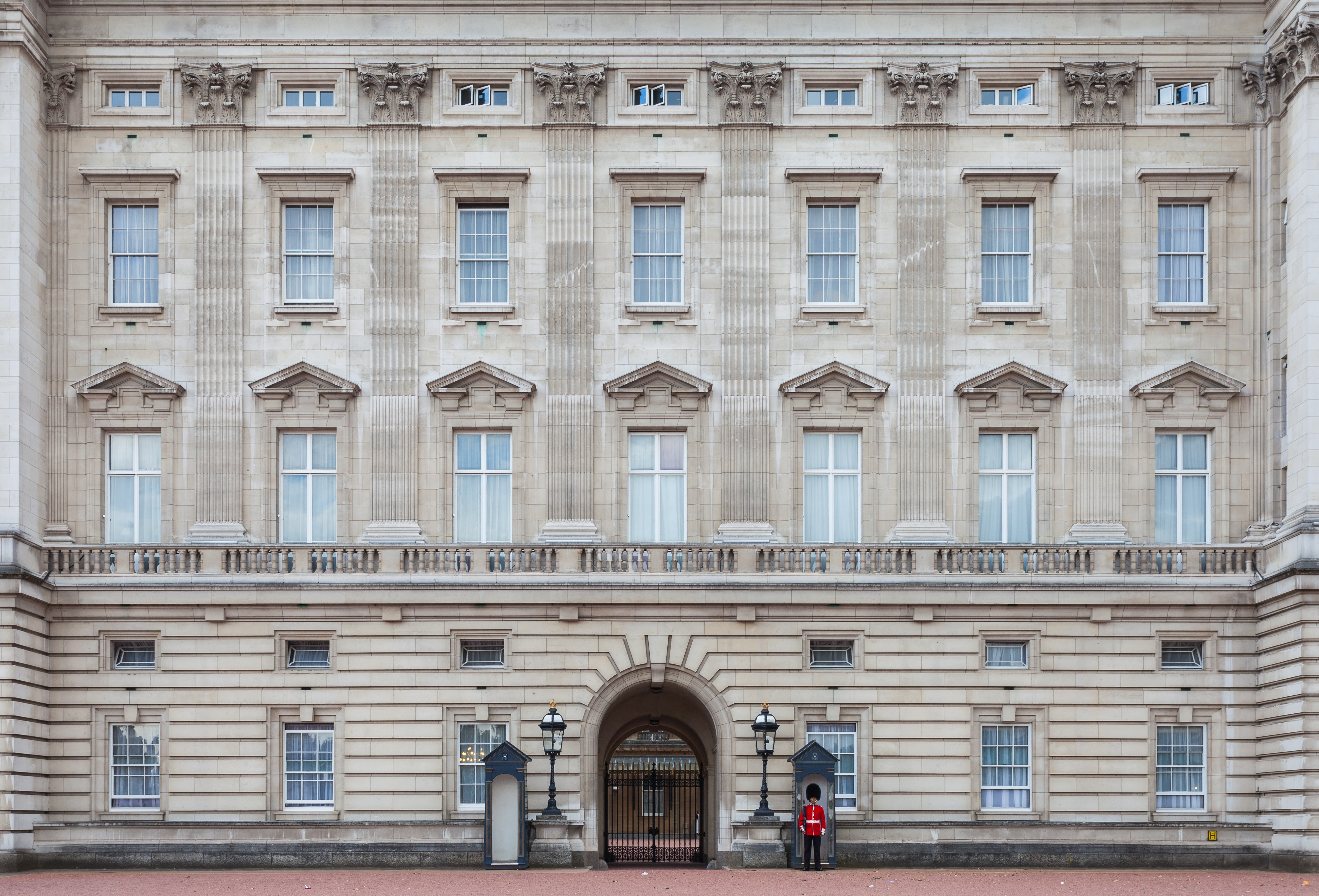 Asymmetric view of the principal façade of the Buckingham Palace, the London residence and principal workplace of the monarchy of the United Kingdom. The palace, located in the City of Westminster, was originally constructed by Edward Blore and completed in 1850. The current appearance is the result of a remodelling by Sir Aston Webb in 1913.